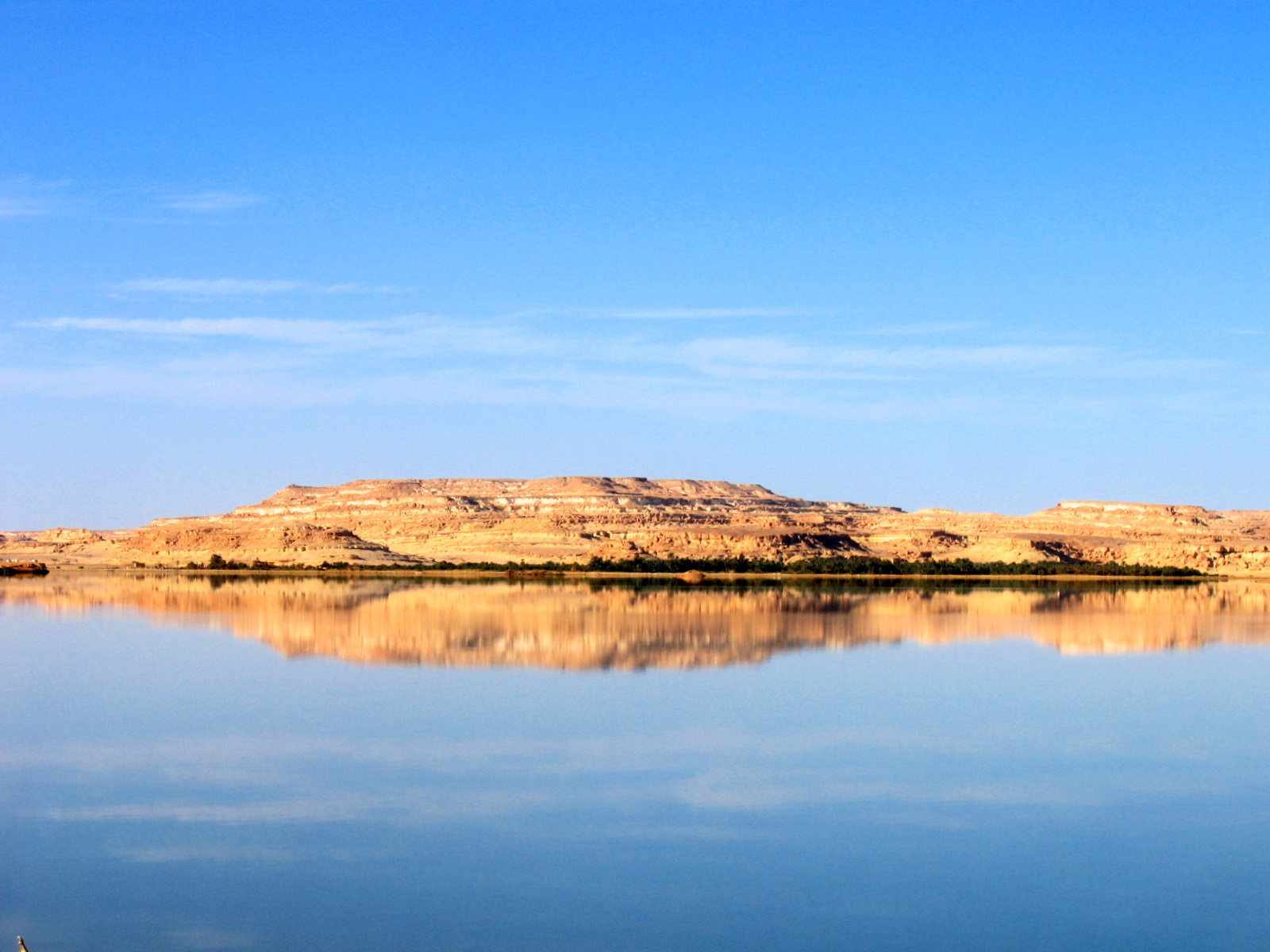 A body of water at Siwa Oasis as seen in February 2009.